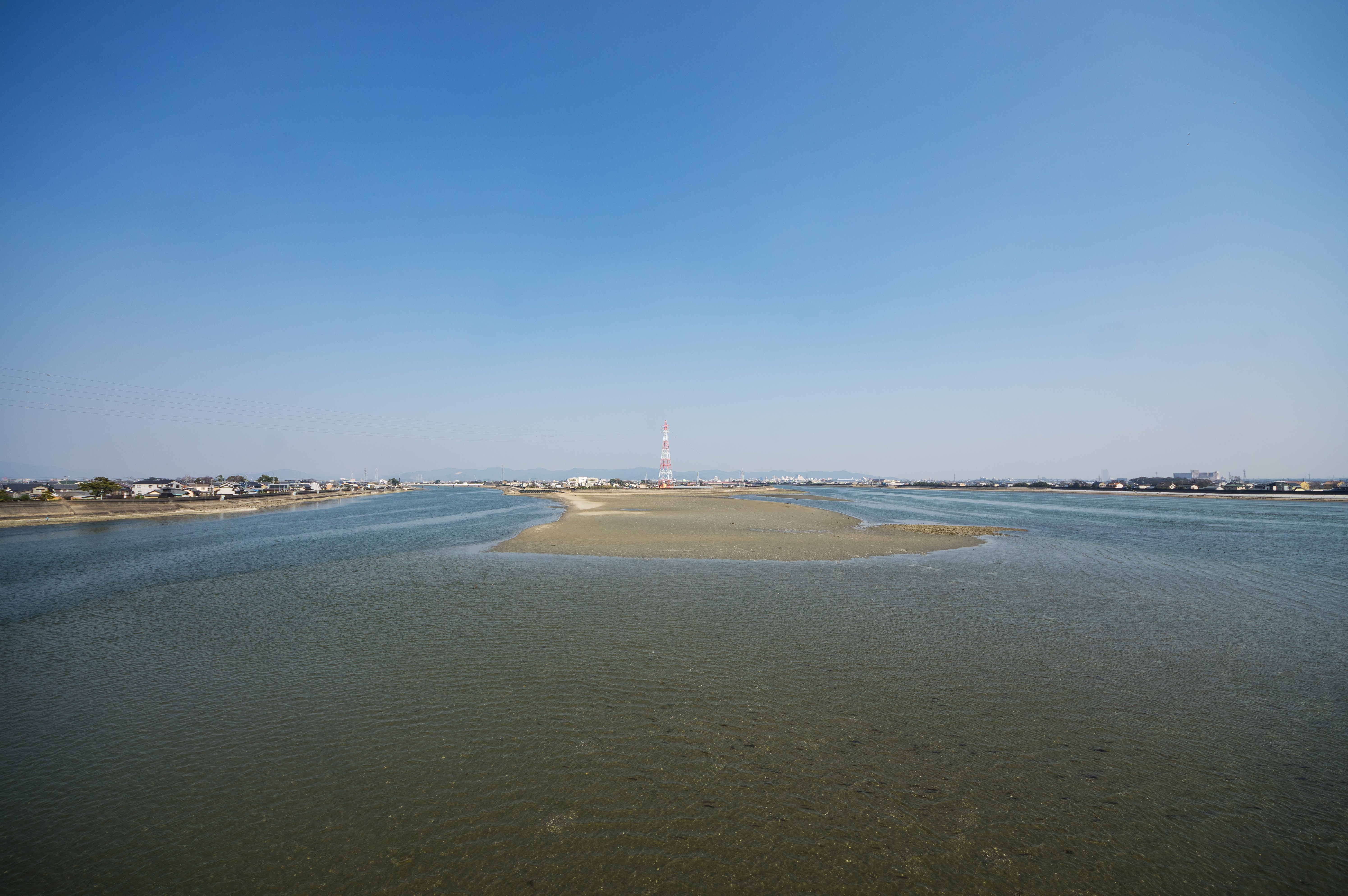 Confluence of Toyogawa (Toyo River) and Toyogawa-hosuiro (discharge channel).